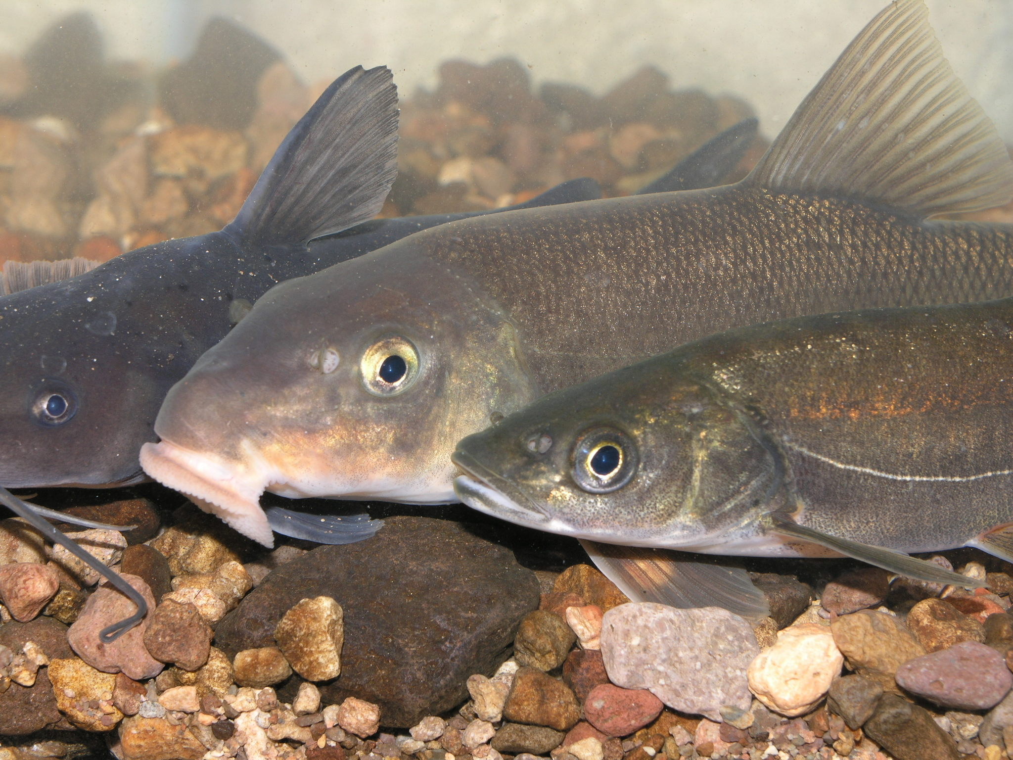 Catostomus bernardini - Yaqui sucker (middle) with Yaqui Catfish (left) and Roundtail Chub (right).